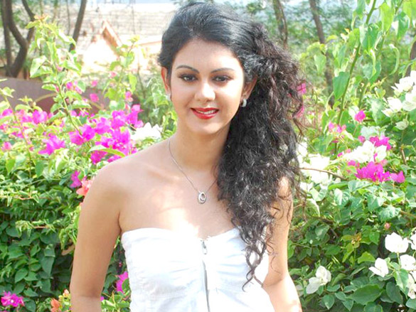 South Indian actress Kamna Jethmalani's photo-shoot